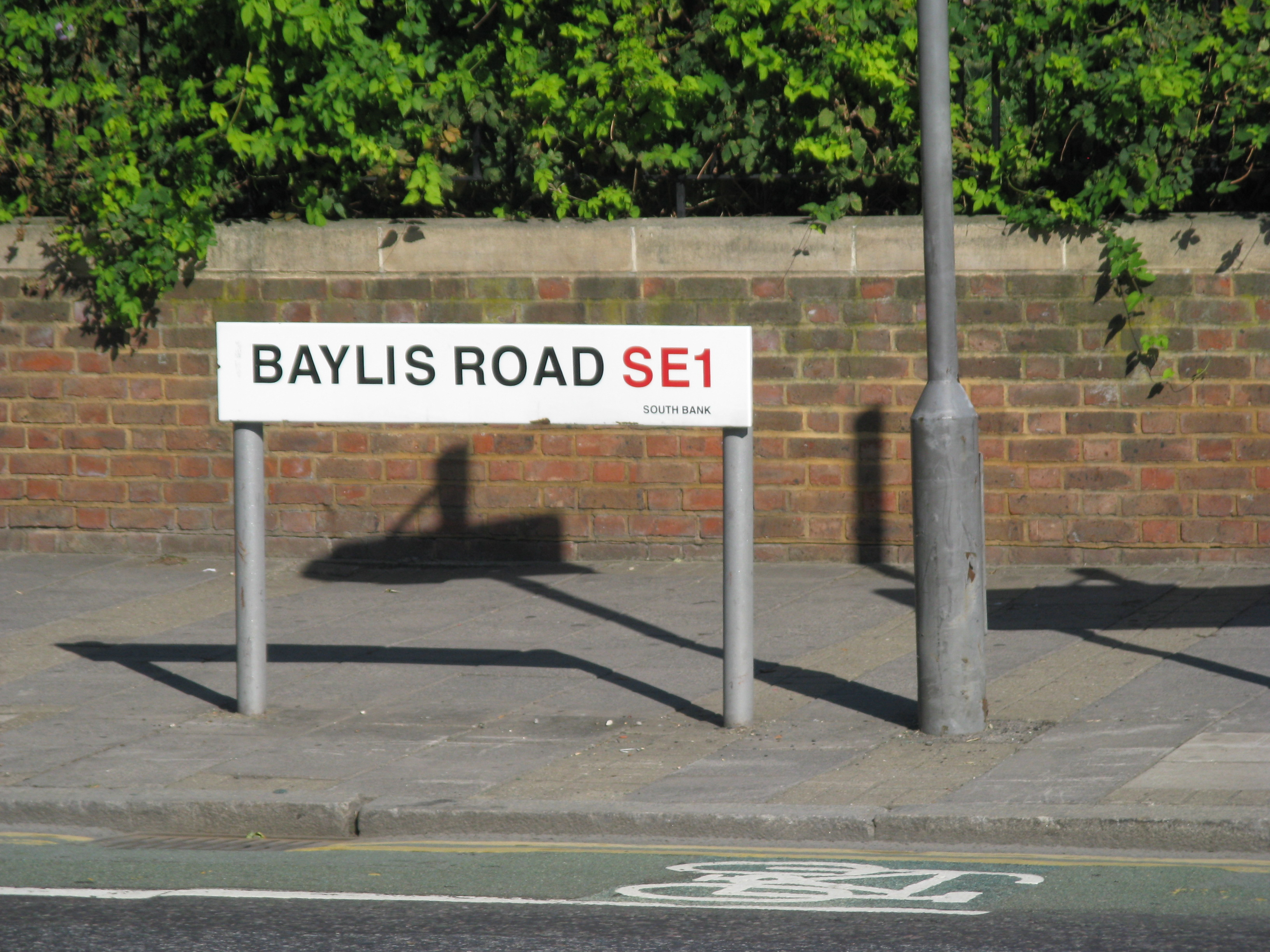 Old Vic theatre - The nearby road named after Lilian Baylis the founder. Lilian Baylis was a great-aunt of Meredith Baylis.